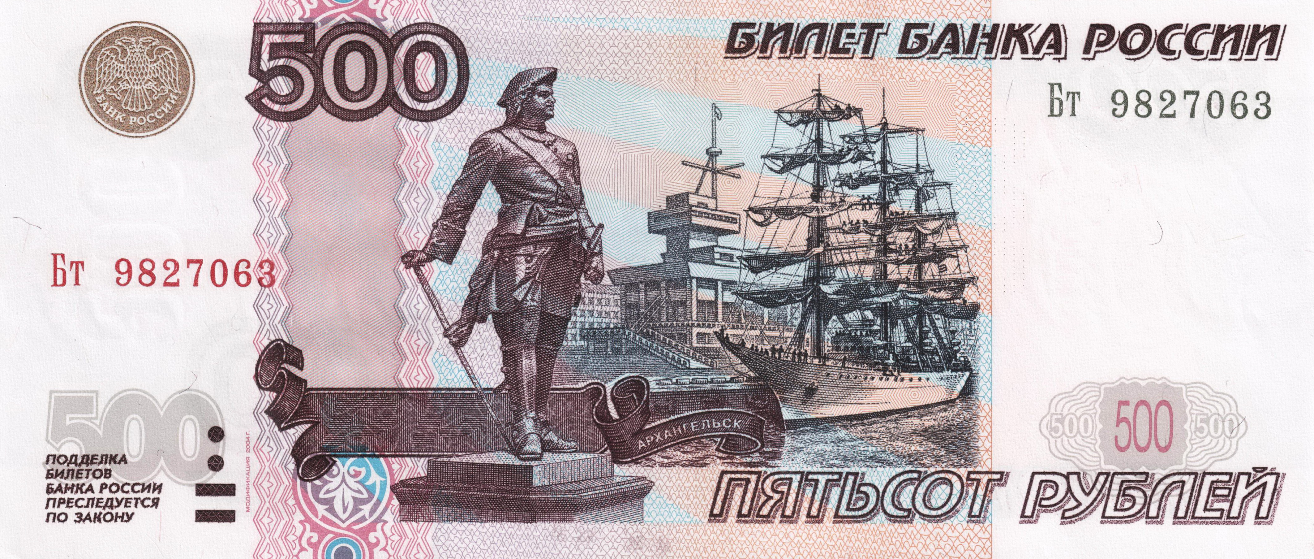 Russian banknote. 500 rubles. Version of 1997 year, 2004 mod. Front